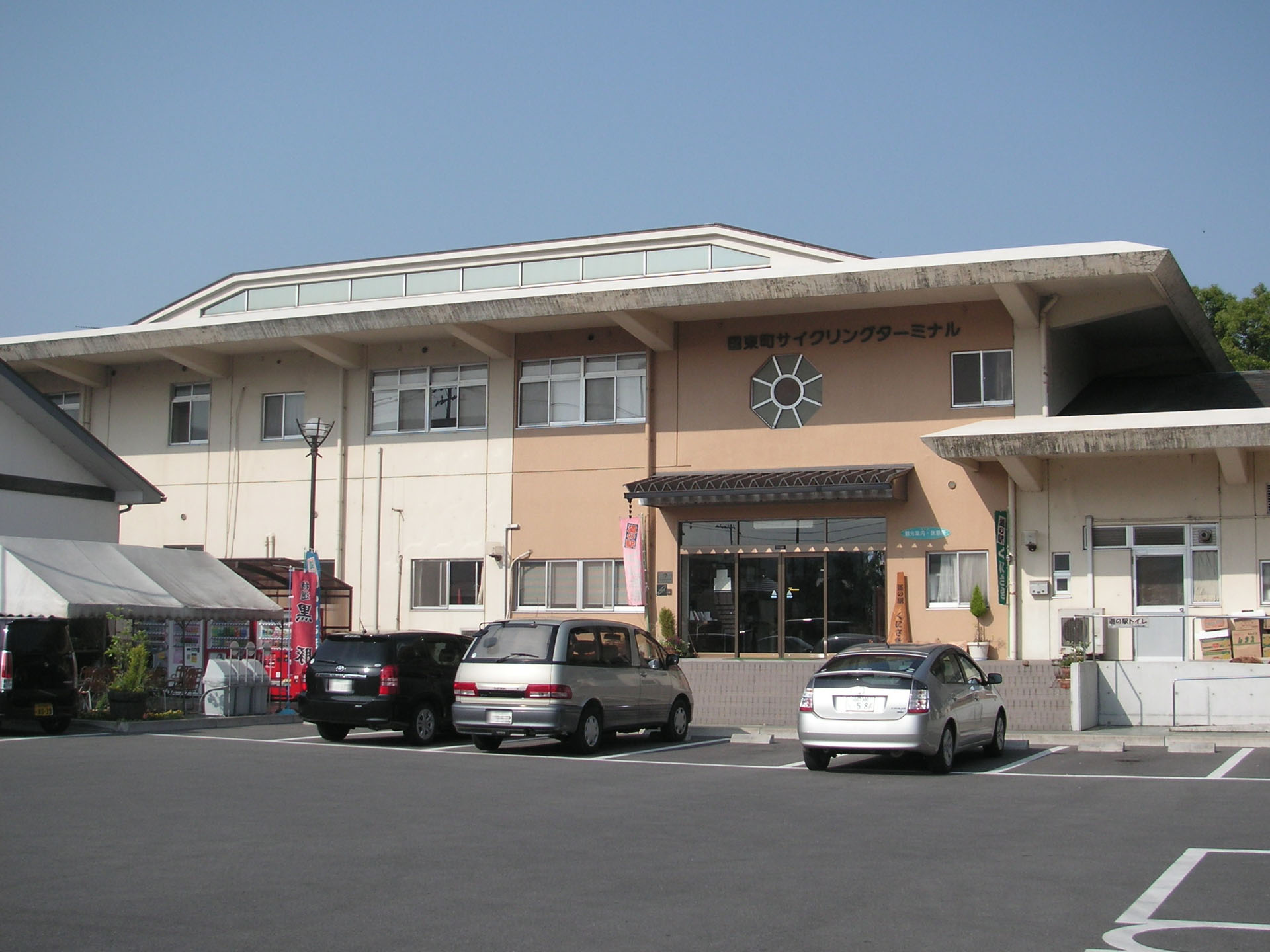 Michinoeki Kunisaki (Kunisaki-shi Oita JAPAN)